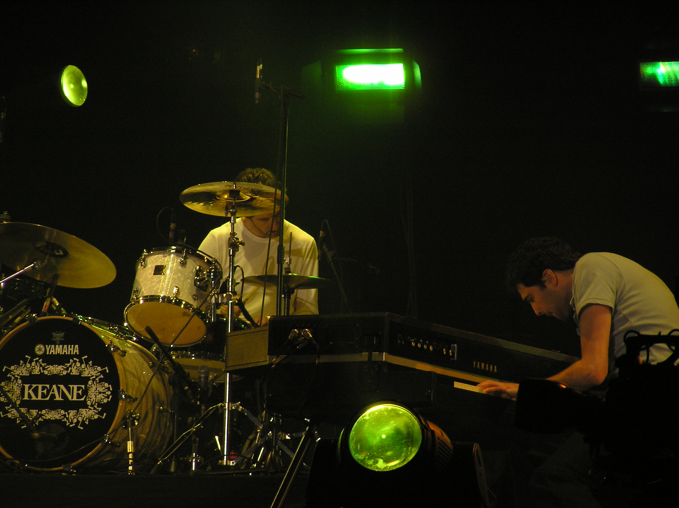 Tim Rice-Oxley plays his Yamaha electric piano alongside drummer Richard Hughes, during a performance by the band Keane at the January 2005 Tsunami Relief Cardiff concert.